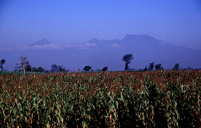 Gunung Wilis volcano in Java.